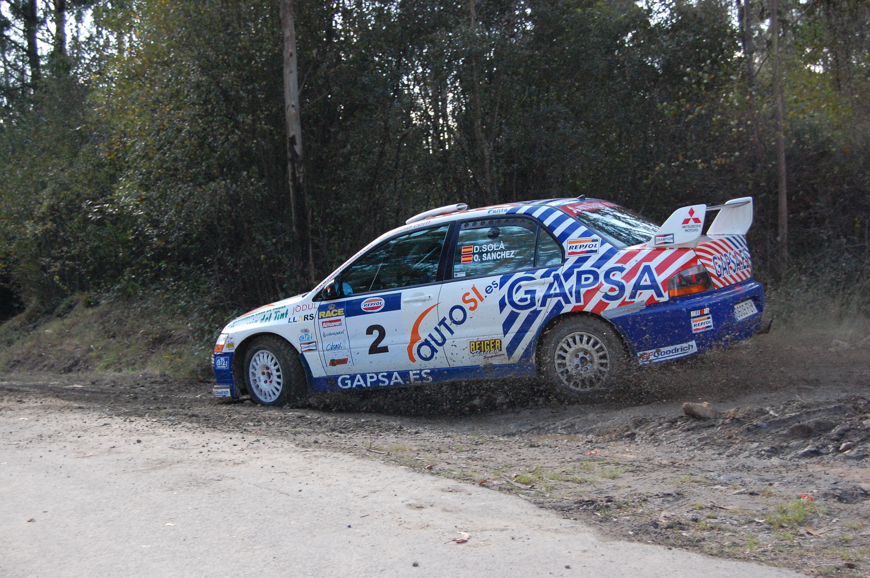 Dani Solá spanish rally driver. Spain rally championship ground.